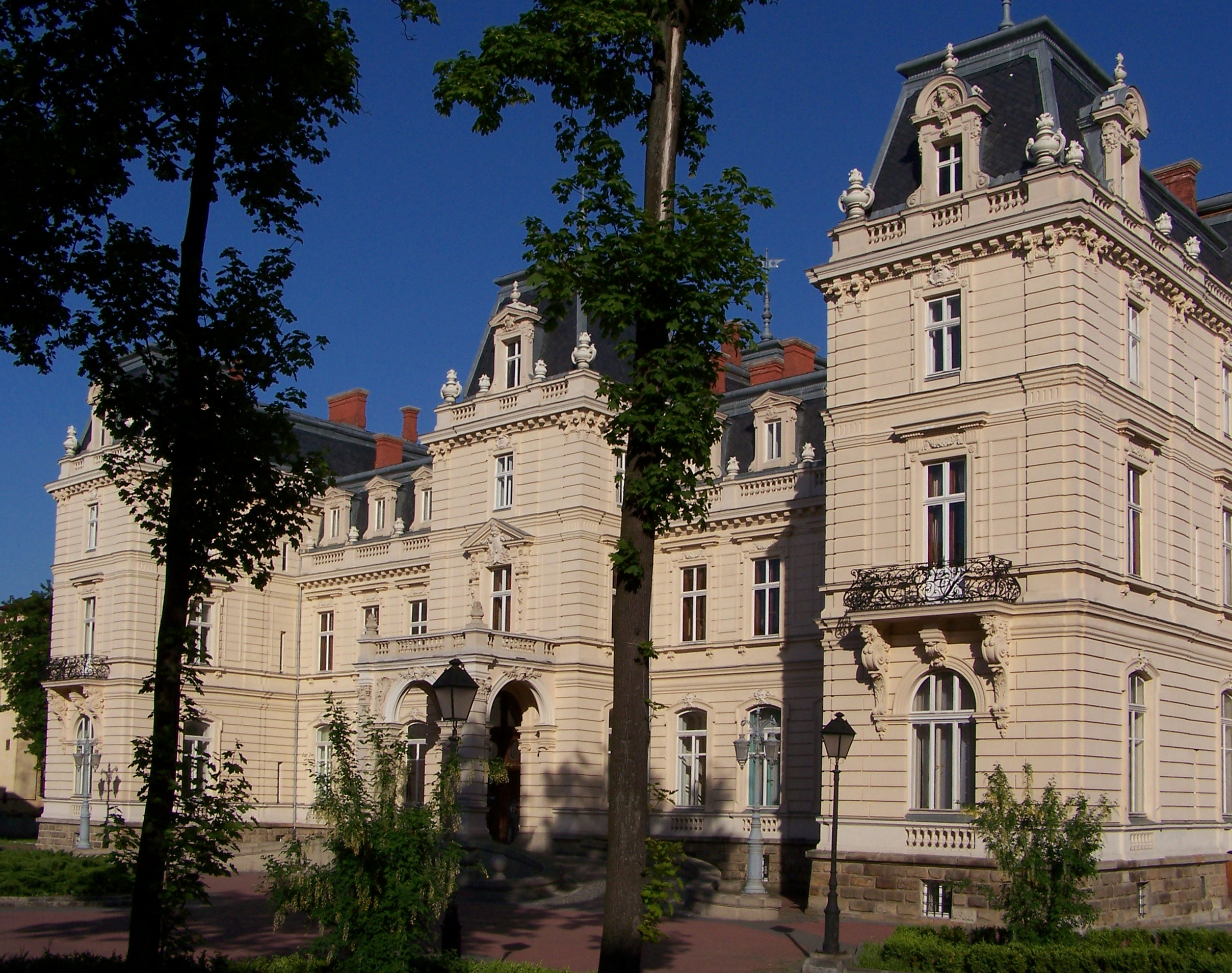 Palace of Potocki family in Lviv (Ukraine).